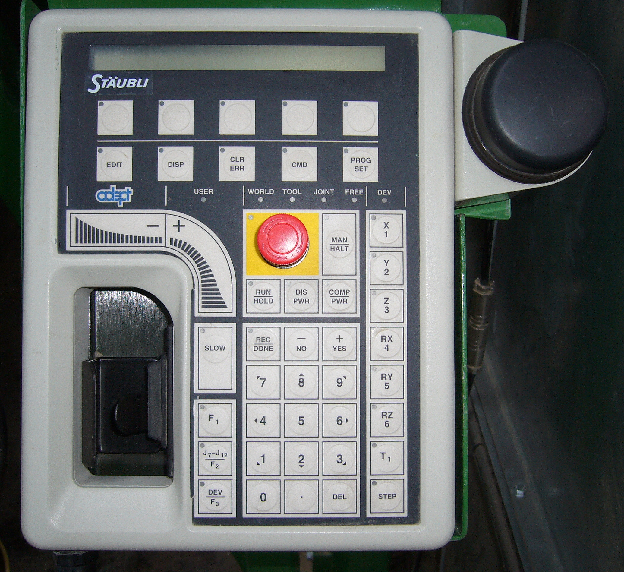 Well-used Staubli RX-Paint robotic arm teach pendant.